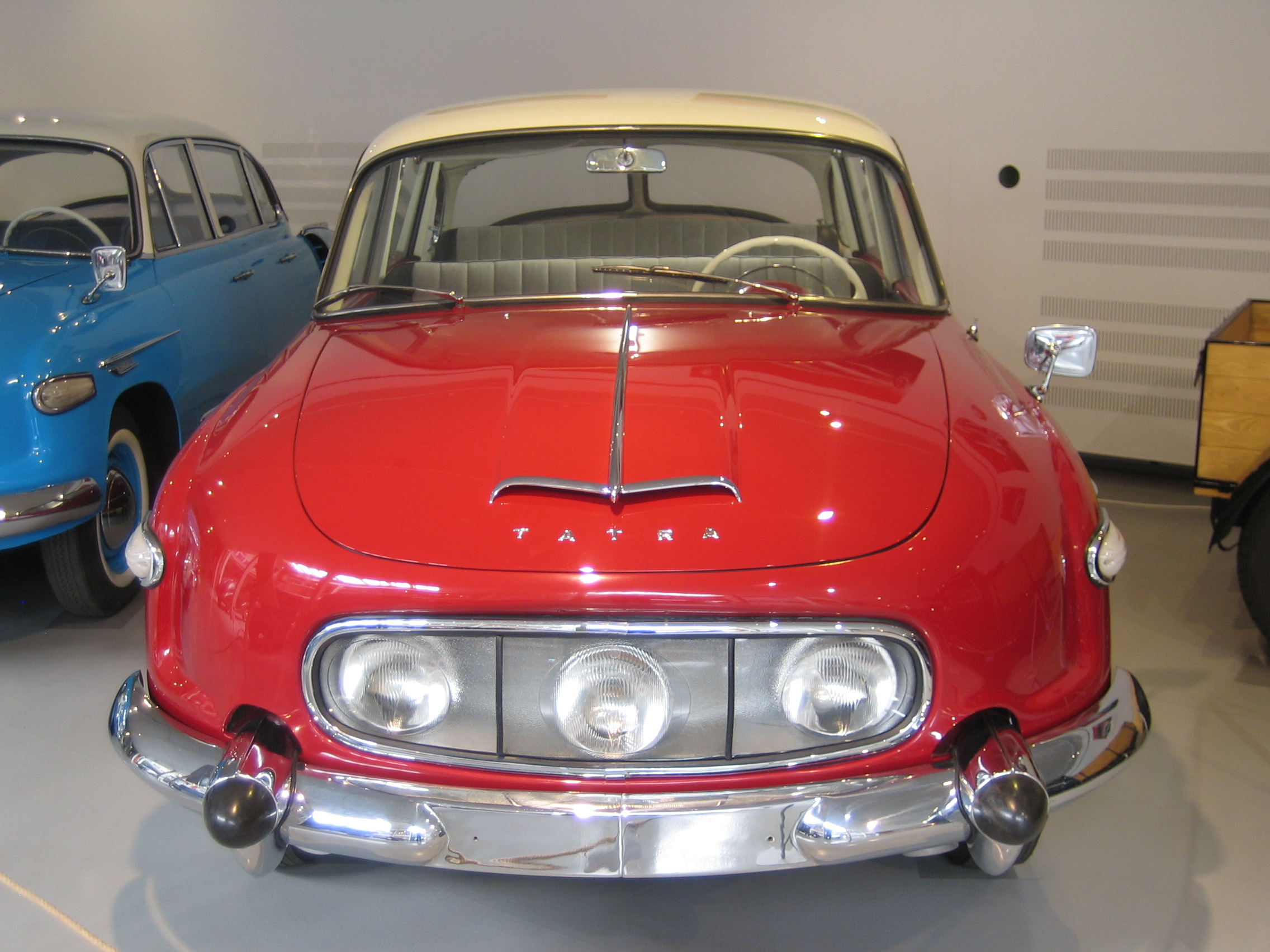 Tatra 603 in Veteran Arena